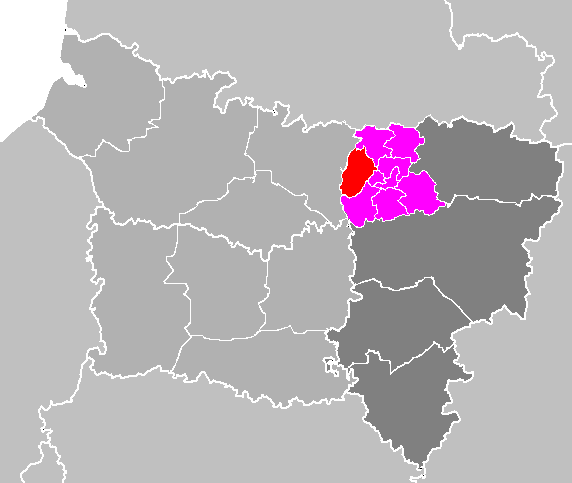 Maps of arrondissements and cantons of France